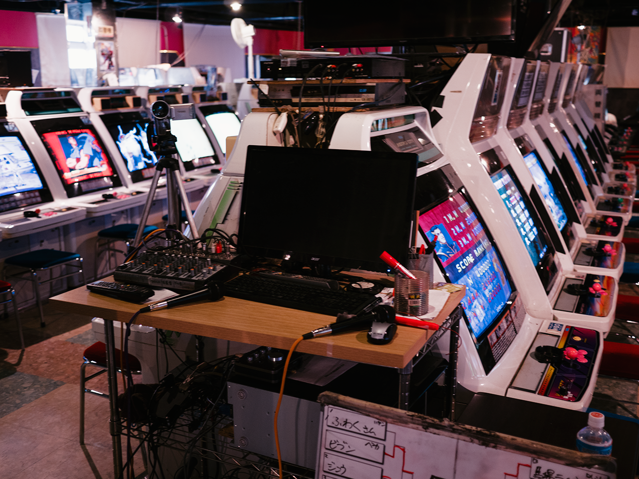 Takadanobaba Game Center Mikado 2F